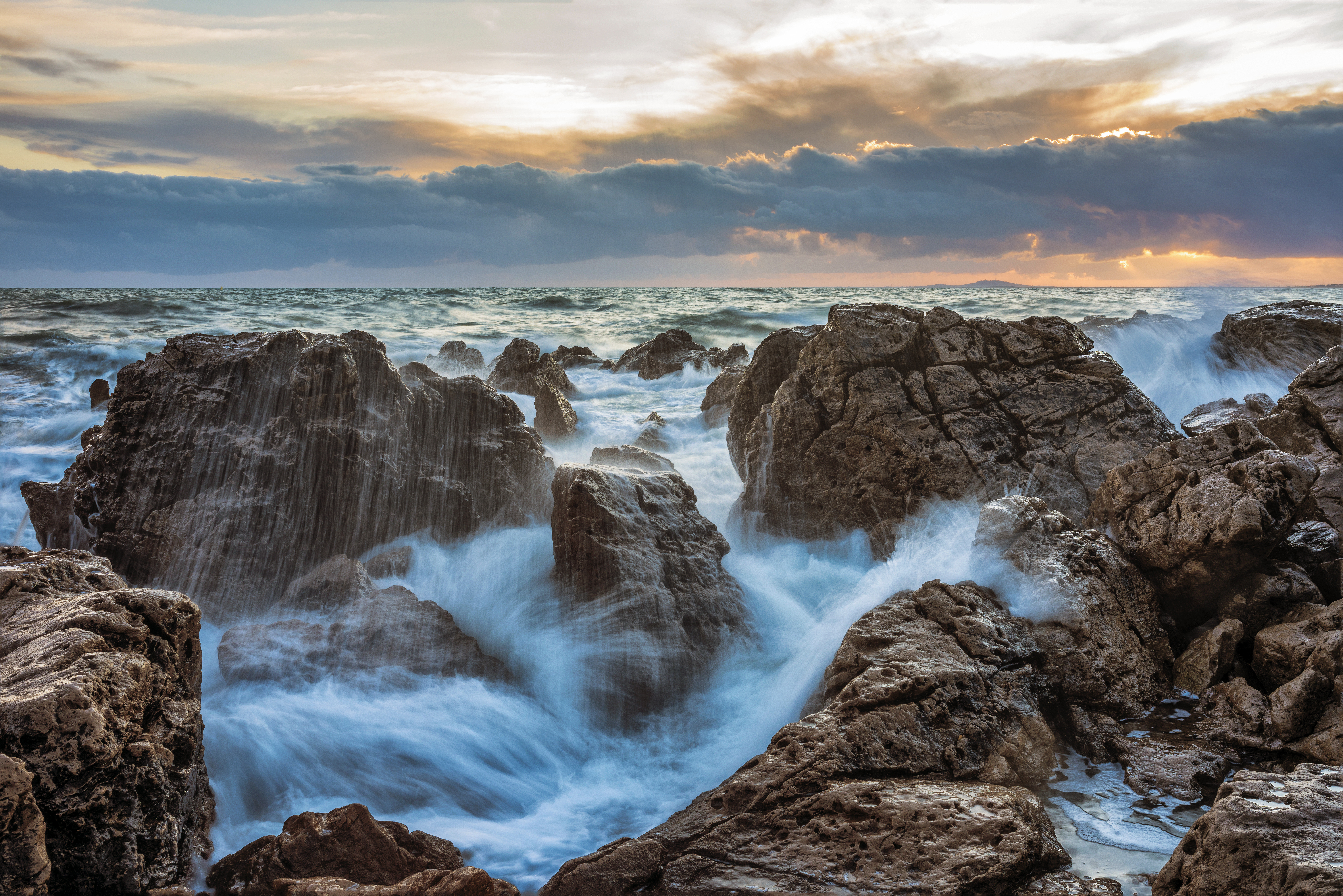 Waves on rocks at sunset in Corniche (Sète, France)